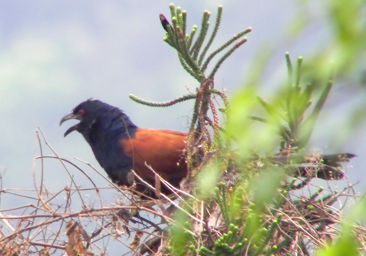 Greater Coucal (Centropus sinensis)